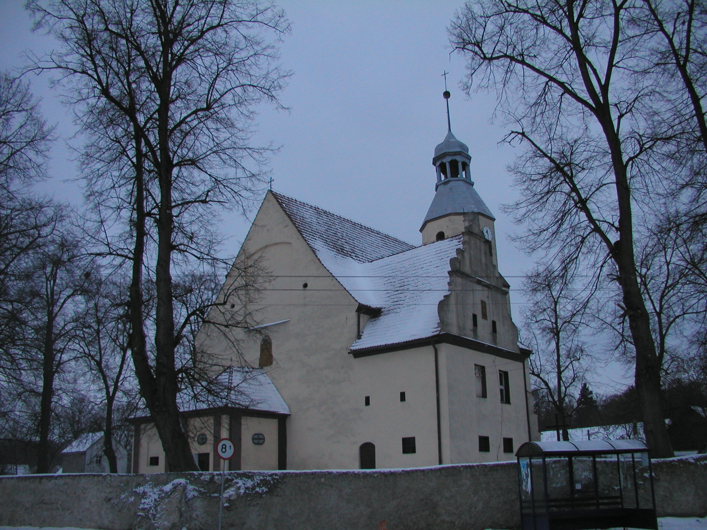 Church in Miłoradzice (Poland)